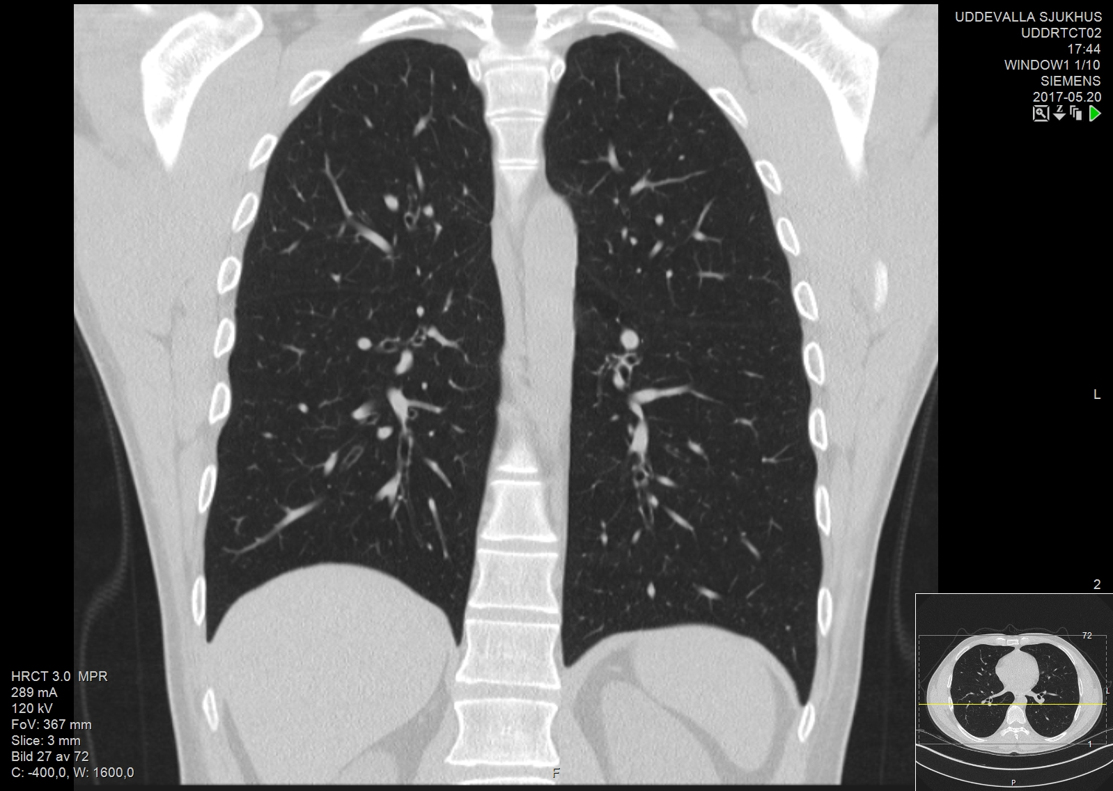 edit High-resolution computed tomographs of coronal planes of a normal thorax of a 37 year old man who presented with unspecific breathing problems.